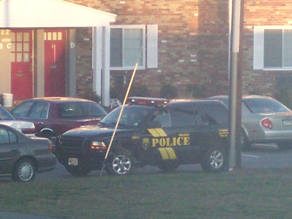 A Delran, New Jersey police SUV. Picture was taken in January 2008. Photo owned by MOOOOOPS.